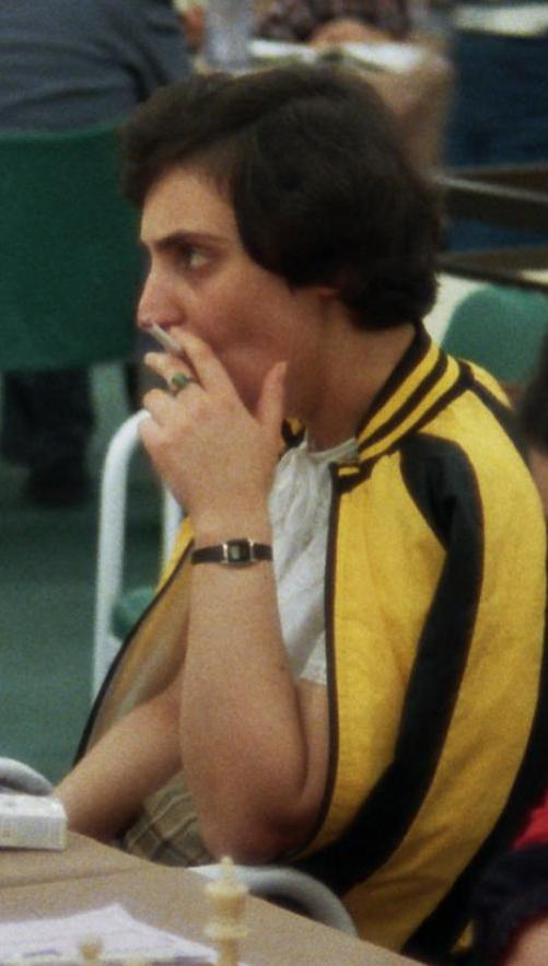 Irina Levitina and Maja Tschiburdanidse, Chess Olympiad 1984 in Thessaloniki, Photographer Gerhard Hund.